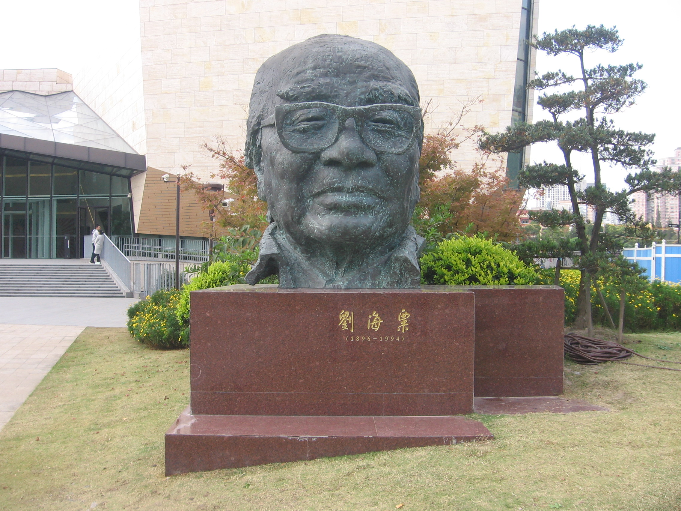 Statue of Liu Haisu in front of Liu Haisu Art Museum